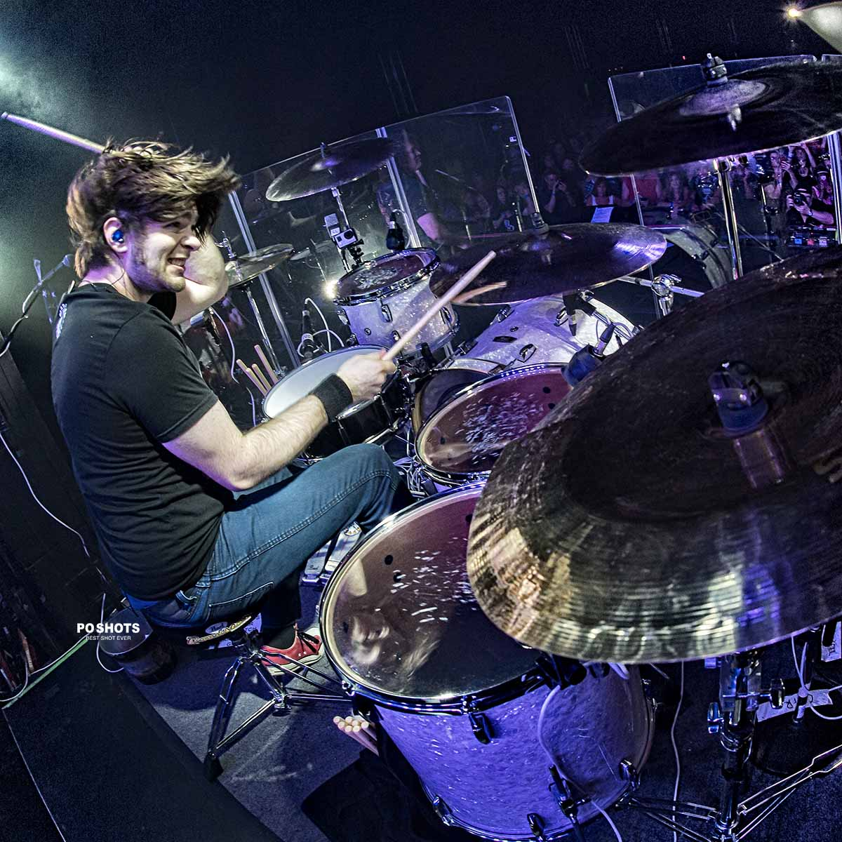 Limelight Center